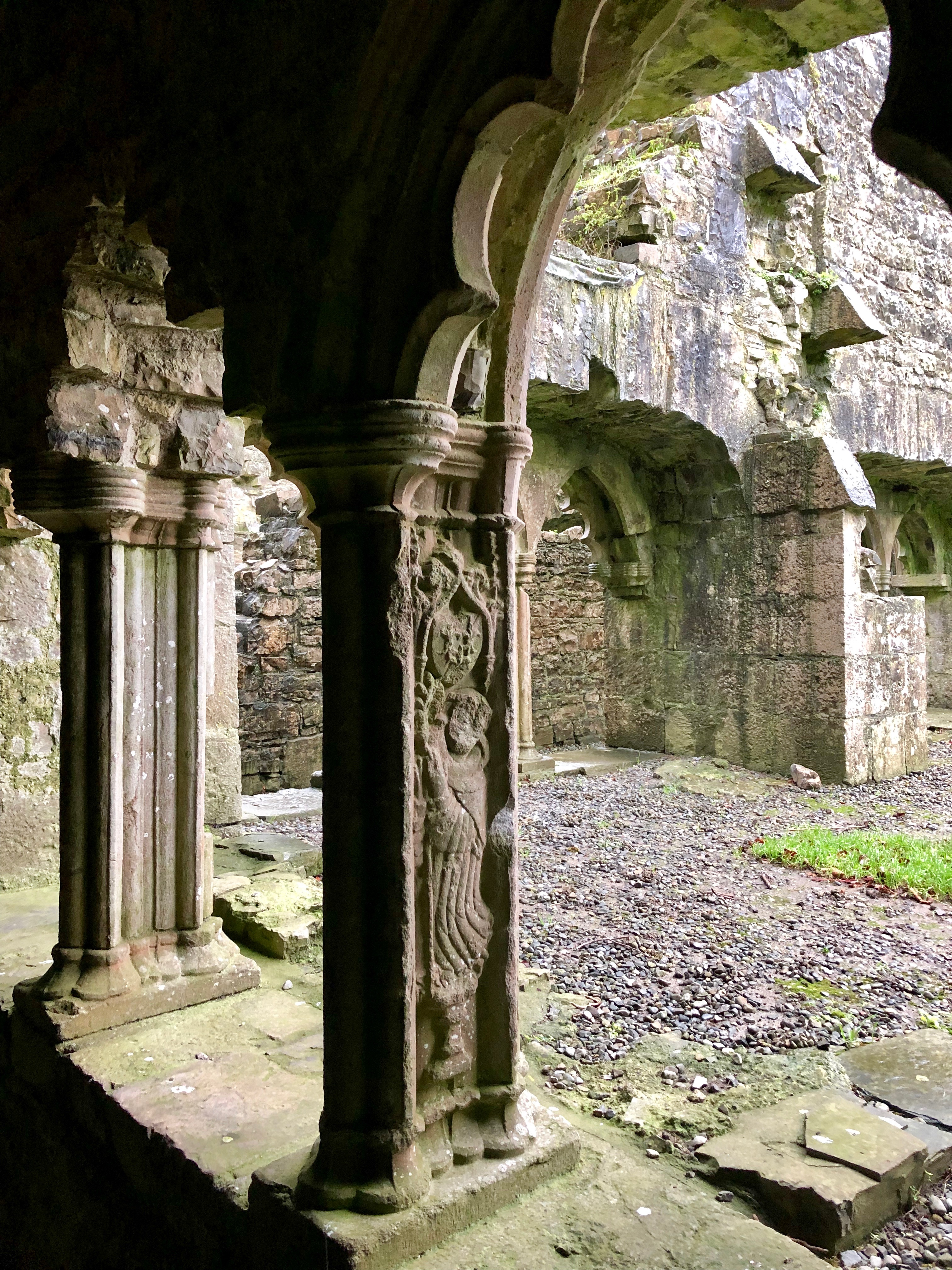 This is Mainistir Bheigtí, or Bective Abbey, a medieval Cistercian Monastery located at the small hamlet of Bective in County Meath, Éire. Founded in 1147AD, the abbey was substantially enlarged and rebuilt during the 15th Century, which is the date of construction of most of the current structure. The complex has portions dating back to the 13th Century; most notably the church, and a 16th Century tower that dominates the front of the structure. The most famous part of the abbey, however, is the well-preserved and ornate remaining sections of the old Cloister, which was used as a backdrop for several scenes of the 1995 film Braveheart. After the dissolution of the monasteries under King Henry VIII, the abbey and it’s lands were confiscated by the state, and purchased by Andrew Wyse in 1552. During the 17th Century, the old abbey was heavily modified and turned into a grand manor house, which later fell into ruin and decay. The ruins of the abbey were landmarked but in private hands until 2012, when they were purchased by the Irish Government and is one of the recorded National Monuments of Ireland, with access open to the public, whom can venture around the hauntingly beautiful ruins of the old abbey.